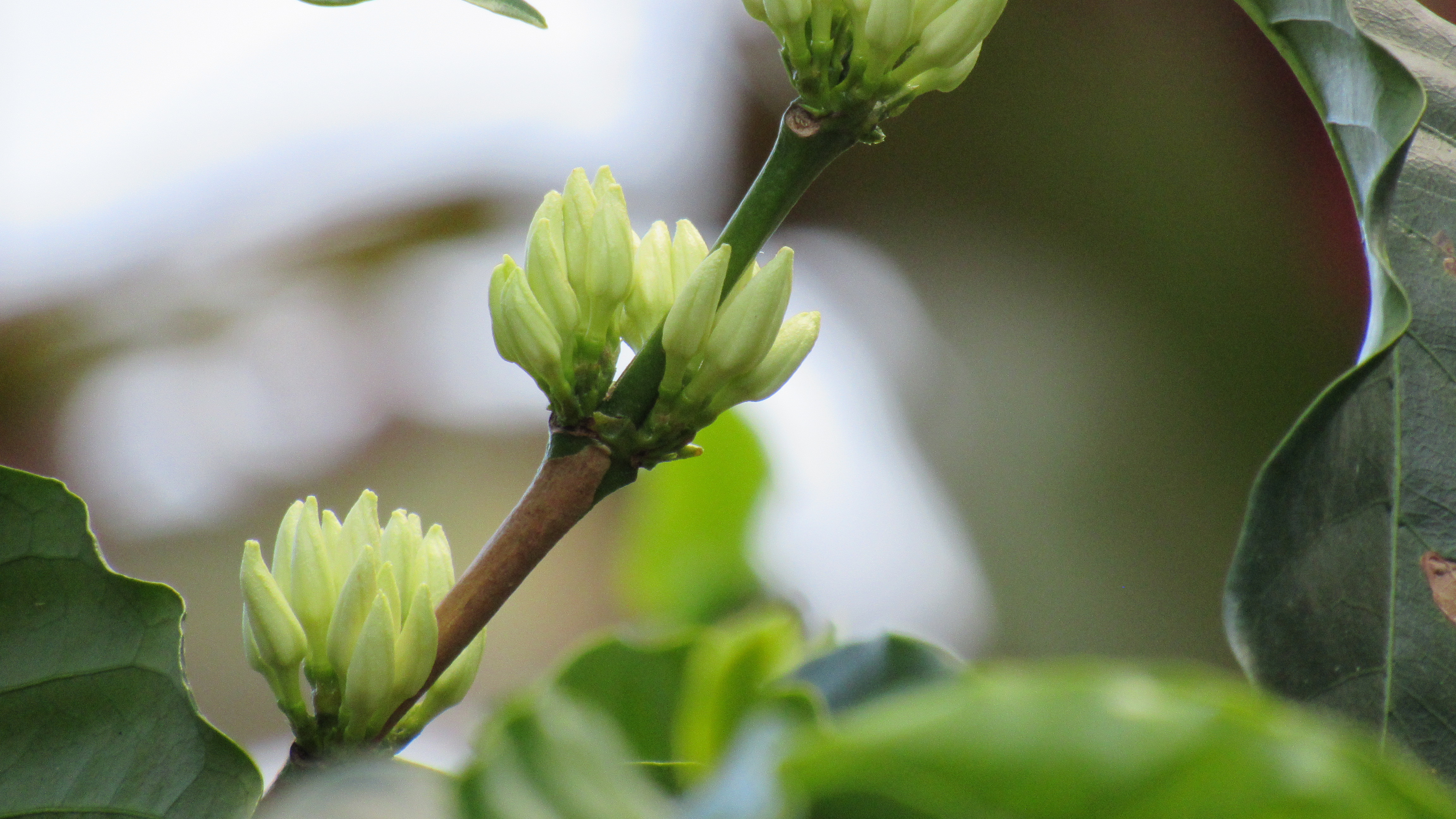 Flower of a coffee plant, Coffea sp.